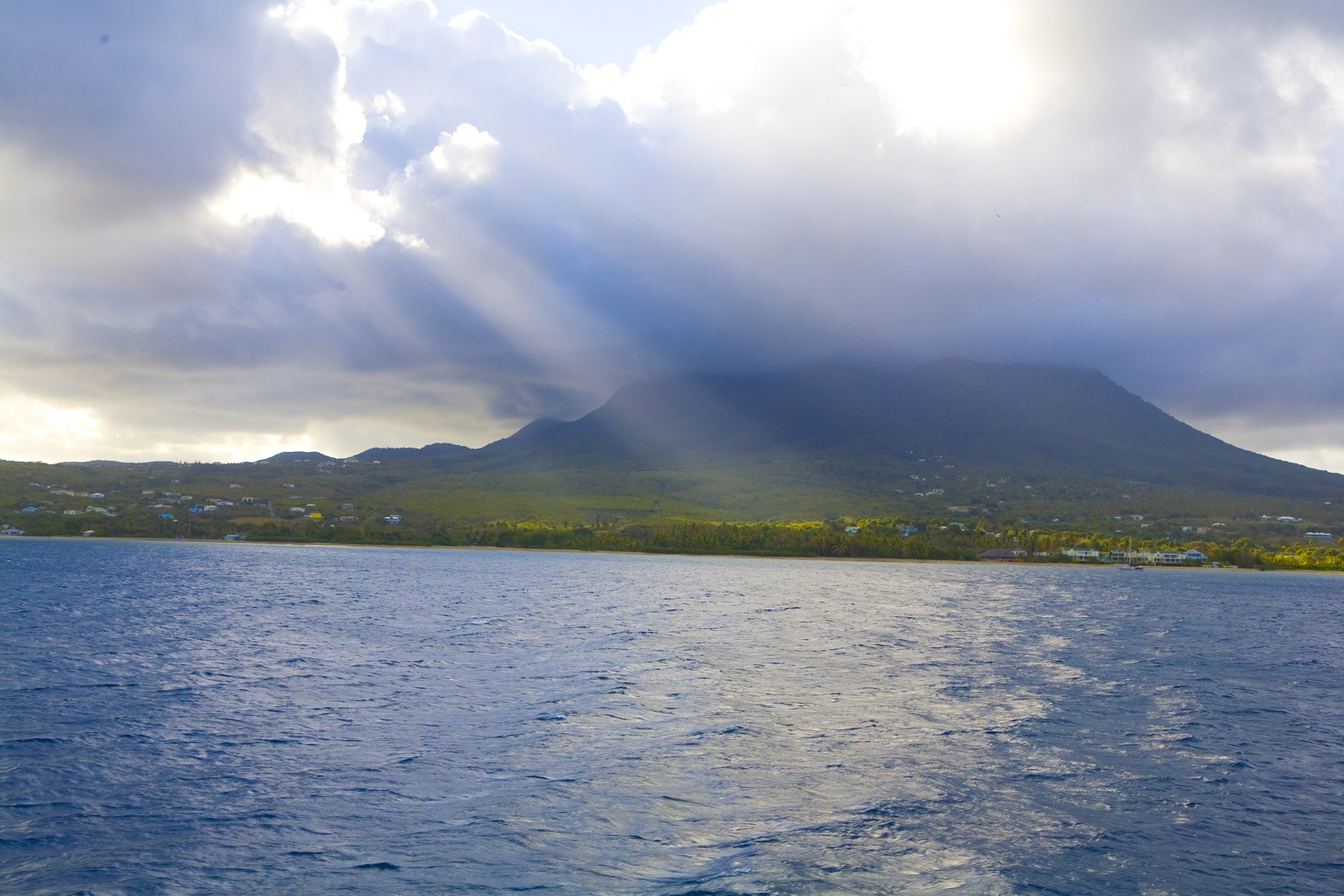 Part of the west coast of Nevis (Saint Kitts and Nevsi) including the location of Nelson's Spring